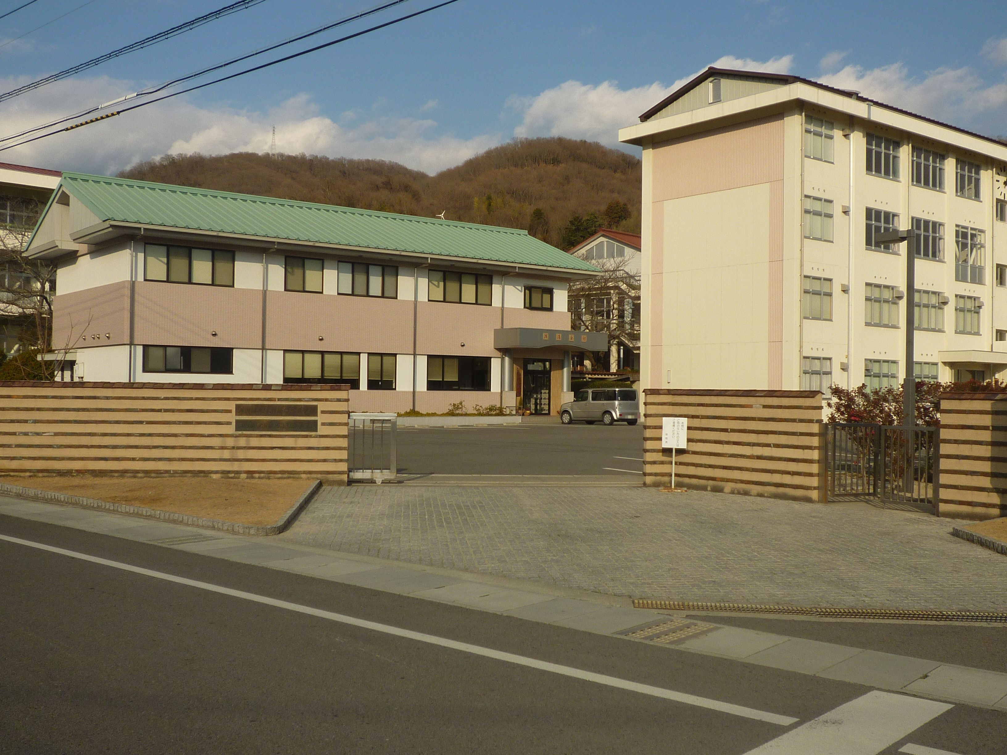 Okayama Prefectural Bizen Ryokuyo Senior High School & Bizen Municipal Katakami High School (Bizen City, Okayama Pref, JPN)